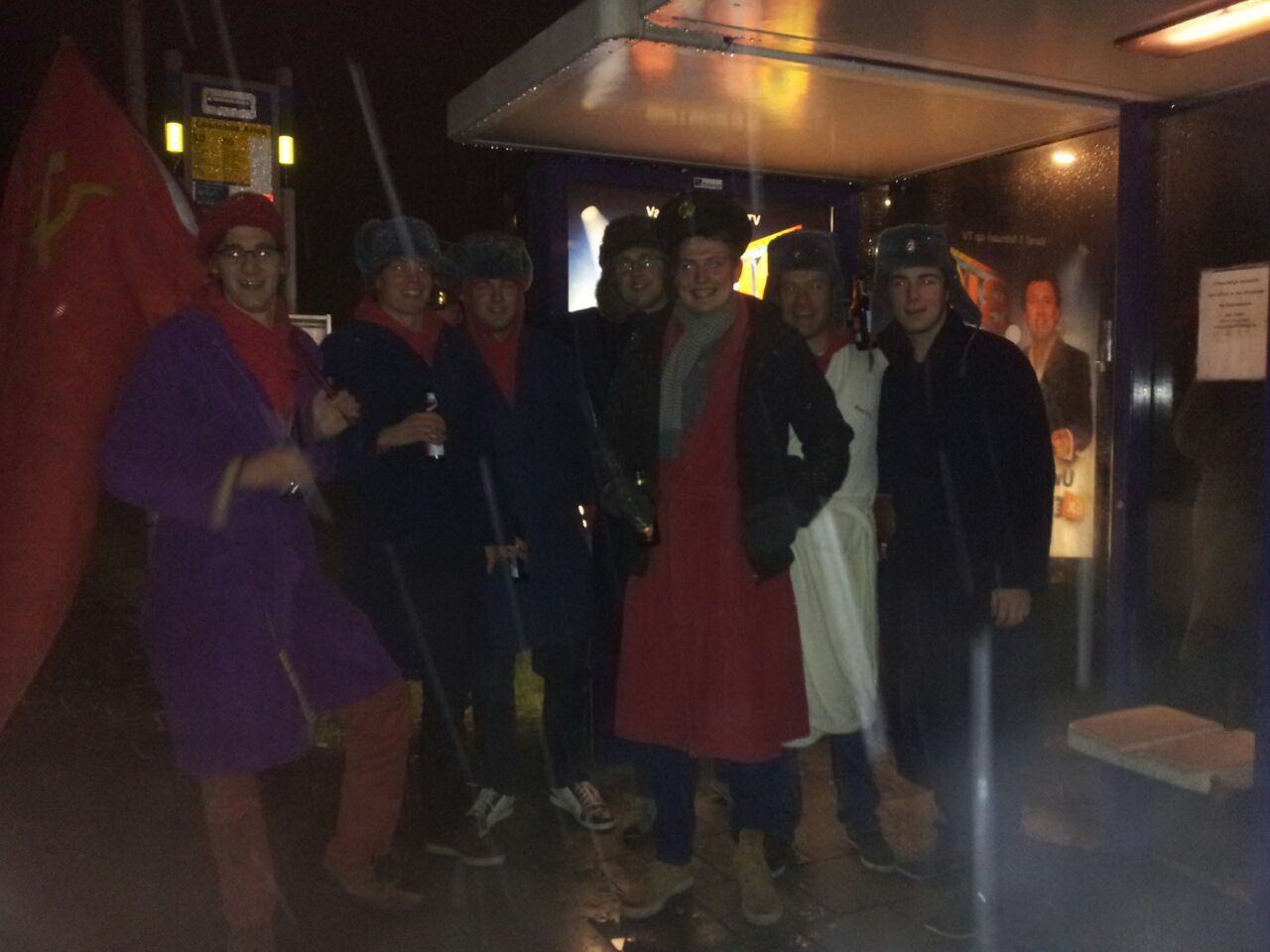 Bewoners kraakpand Vrijstaete in een post-koude oorlog nostalgische poze.